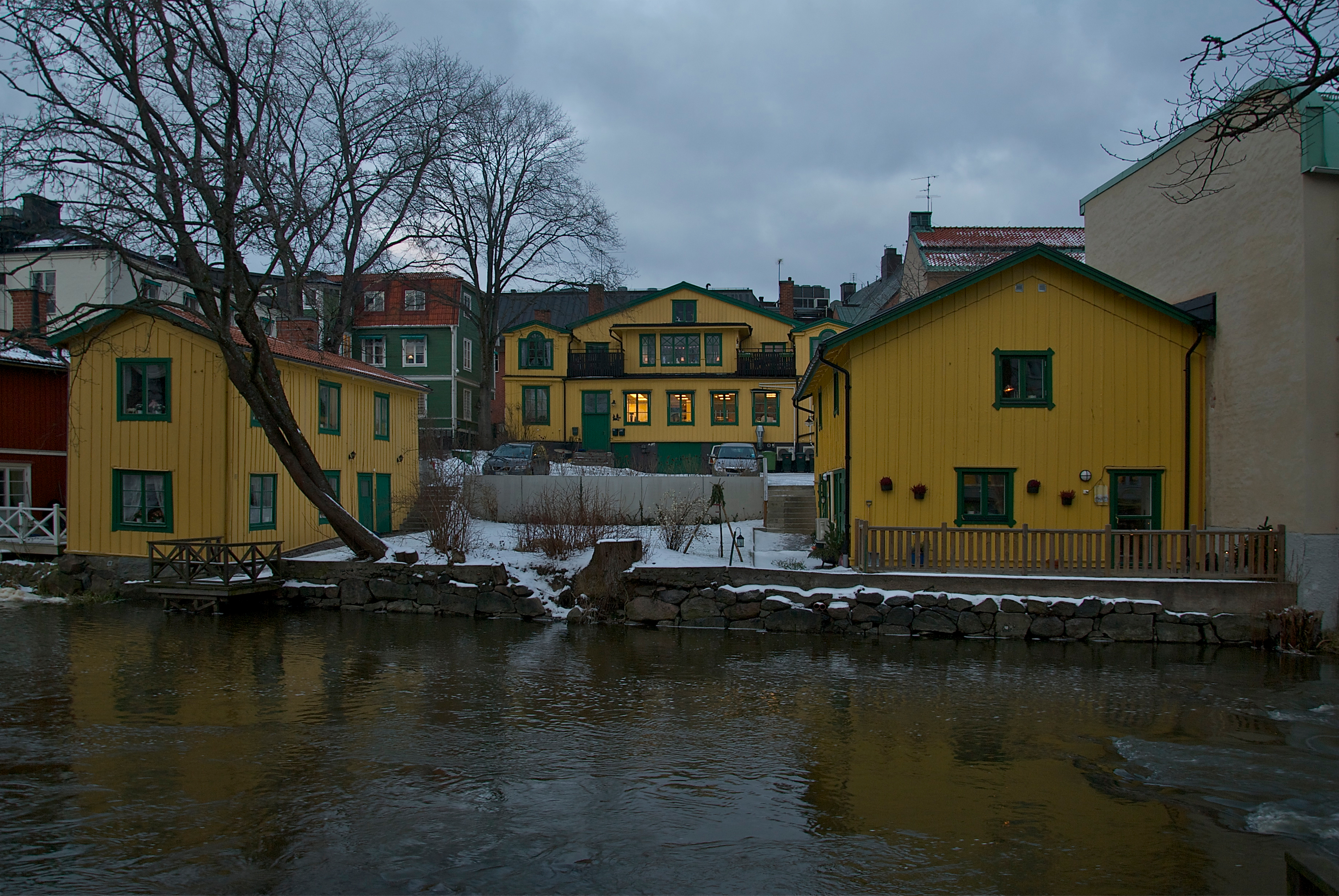 Behmerska gården in Norrtälje, January 2012. Built in the 1830s. Home to Johan Edvard Behme, Mayor of Norrtälje 1887-1911.